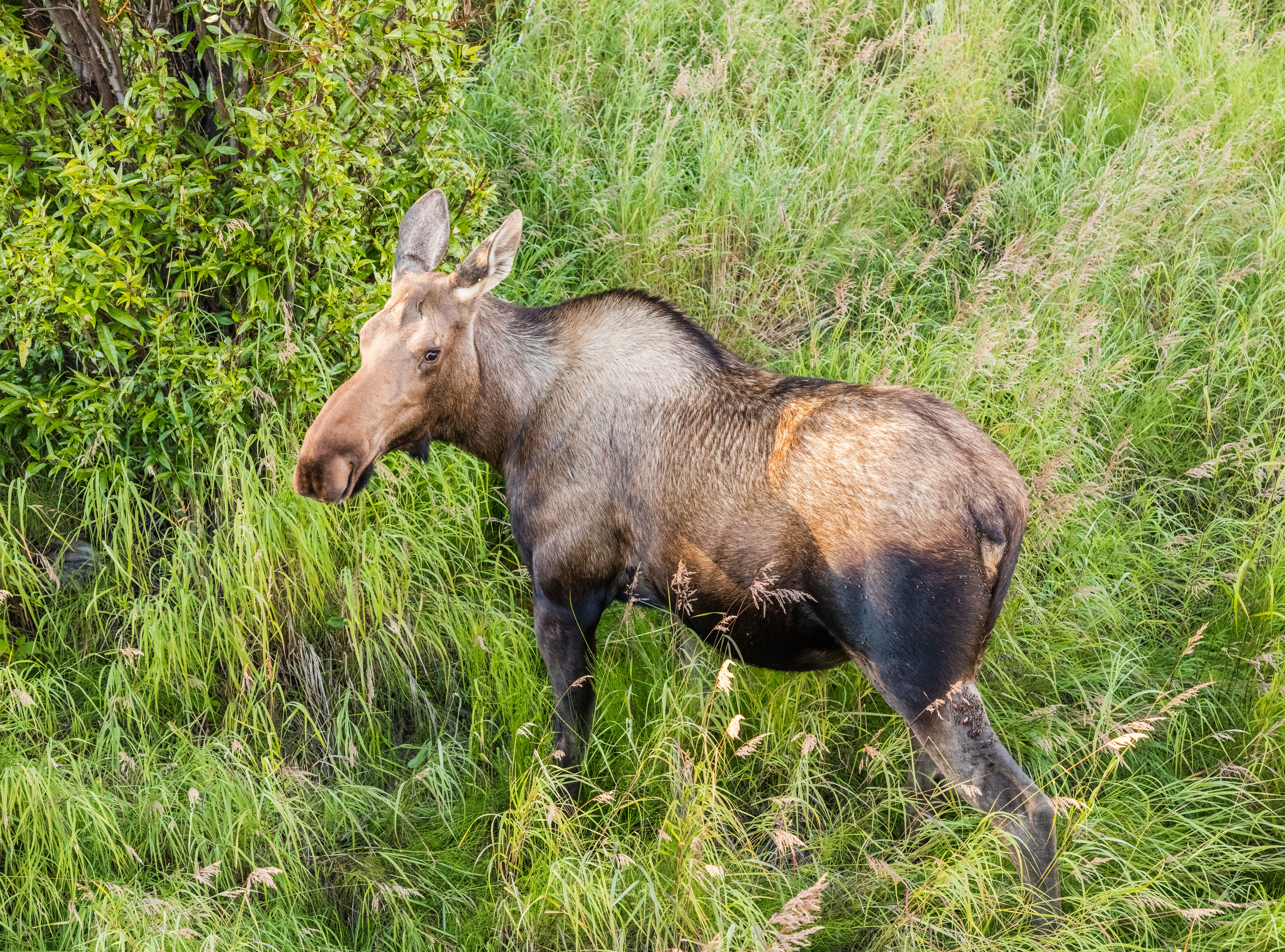 Moose (Alces alces), Potter marsh, Alaska, United States